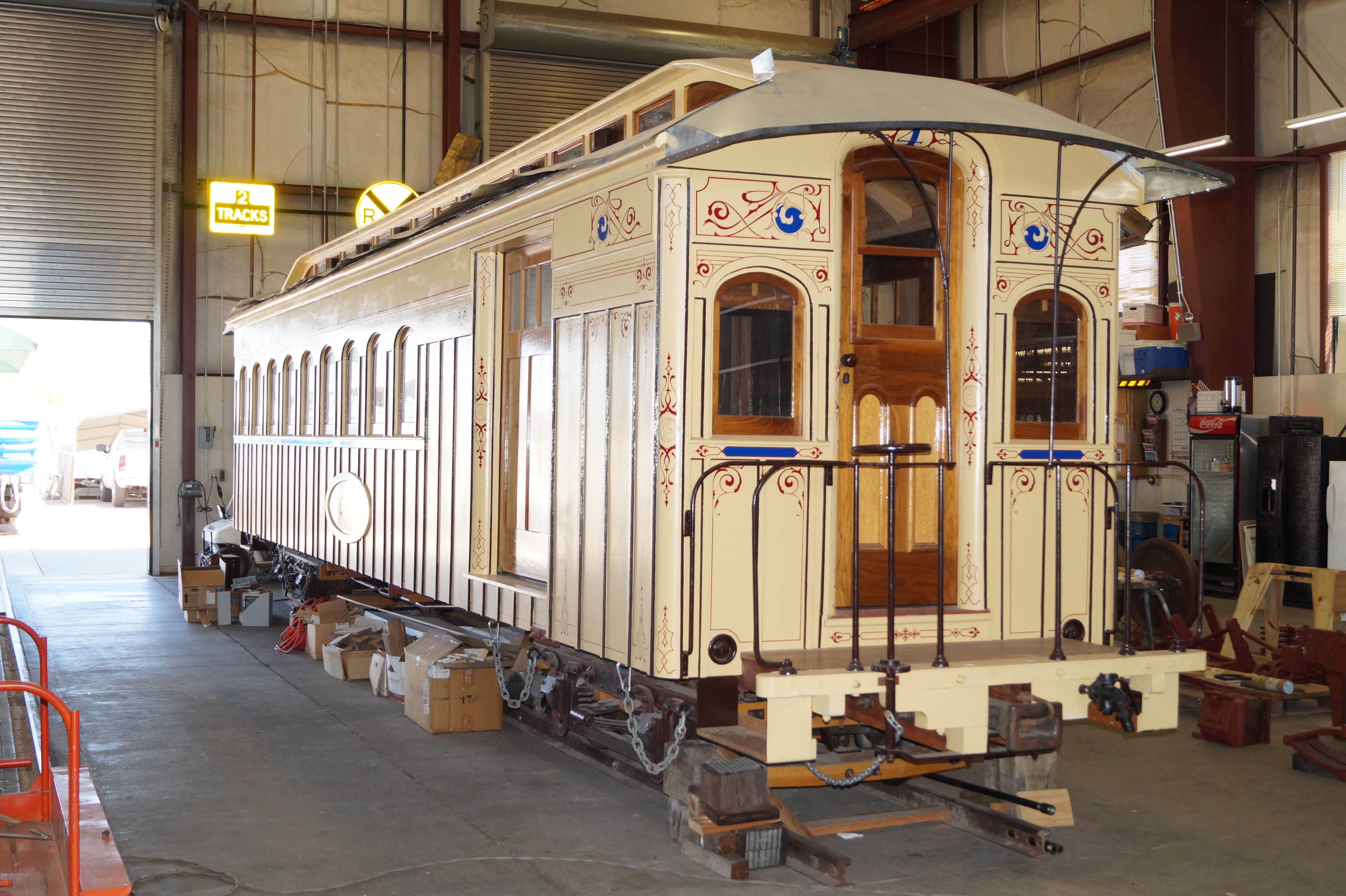 The Nevada State Railroad Museum which is an agency of the Nevada Department of Cultural Affairs. It is located at Yucca Street on the tracks of the historic Union Pacific Railroad branch Henderson-Boulder City near the former Boulder City Railroad Yards where the Hoover Dam construction equipment was unloaded in the 1930s.